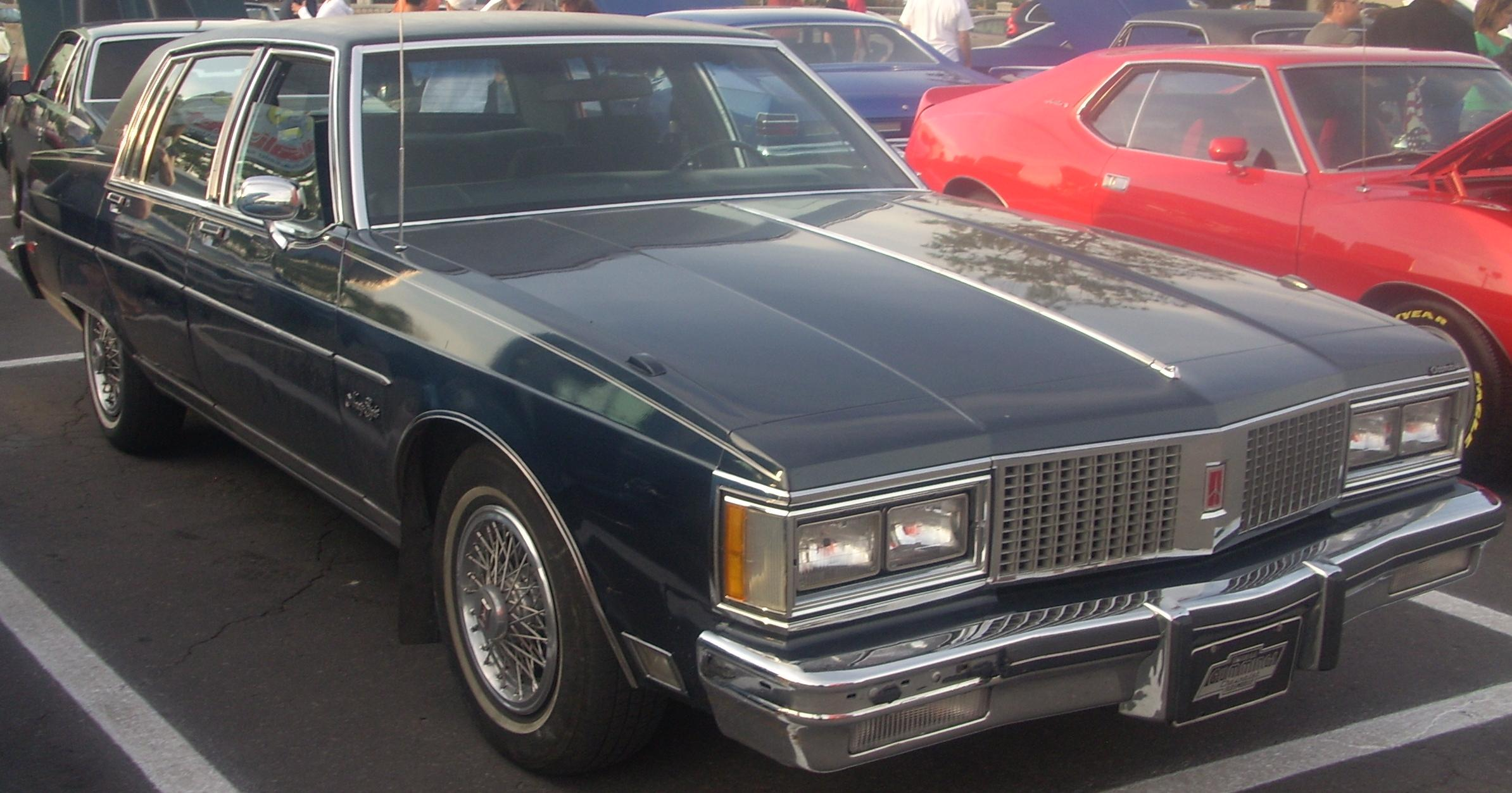 Oldsmobile 98 photographed in Montreal, Quebec, Canada at Gibeau Orange Julep